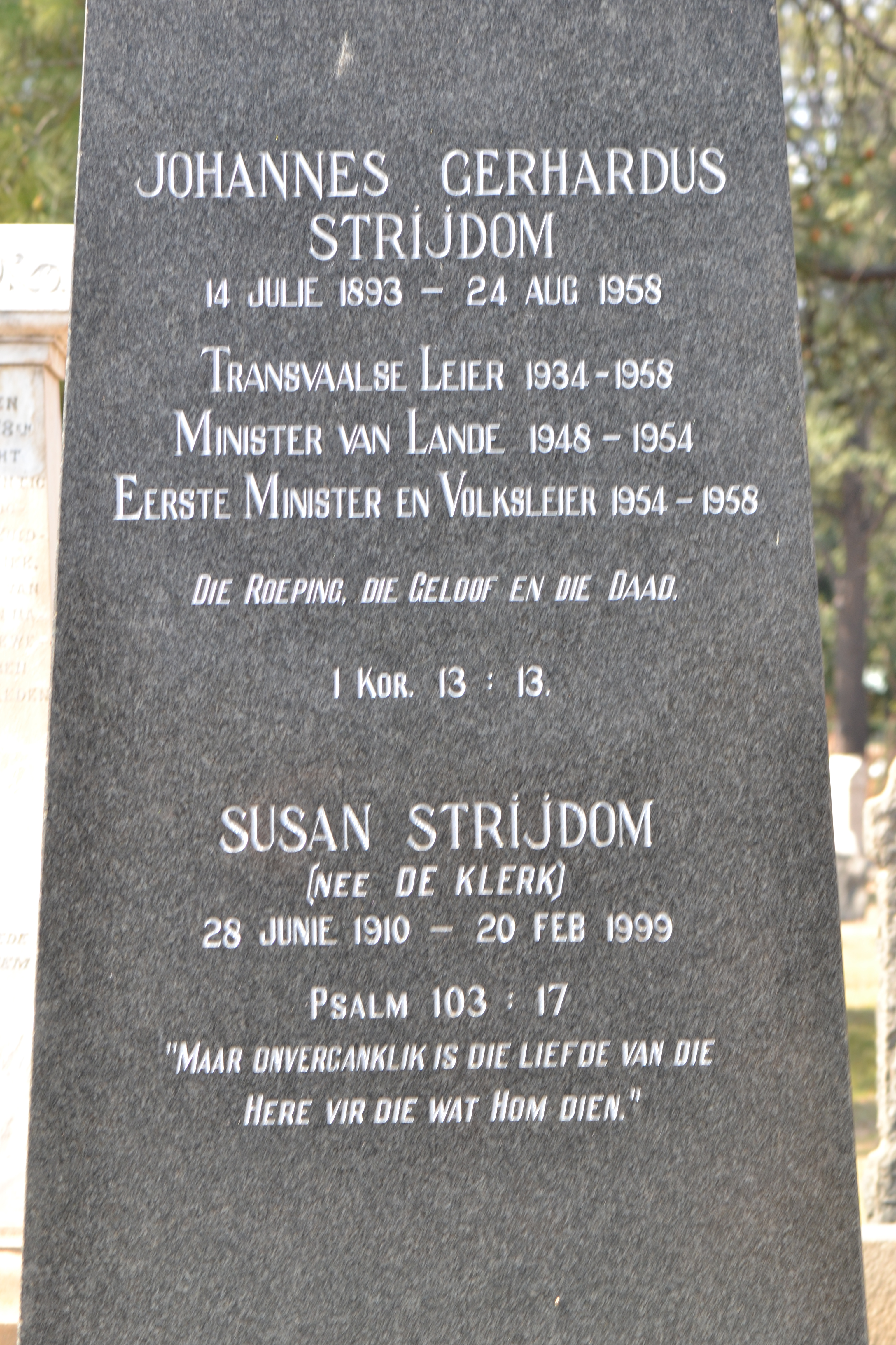 Johannes Gerhardus Strijdom 6 th Prime Minister of South Africa Church Street Cemetery in Pretoria Heroes Acre This media shows a South African Protected Site with SAHRA file reference 000000.